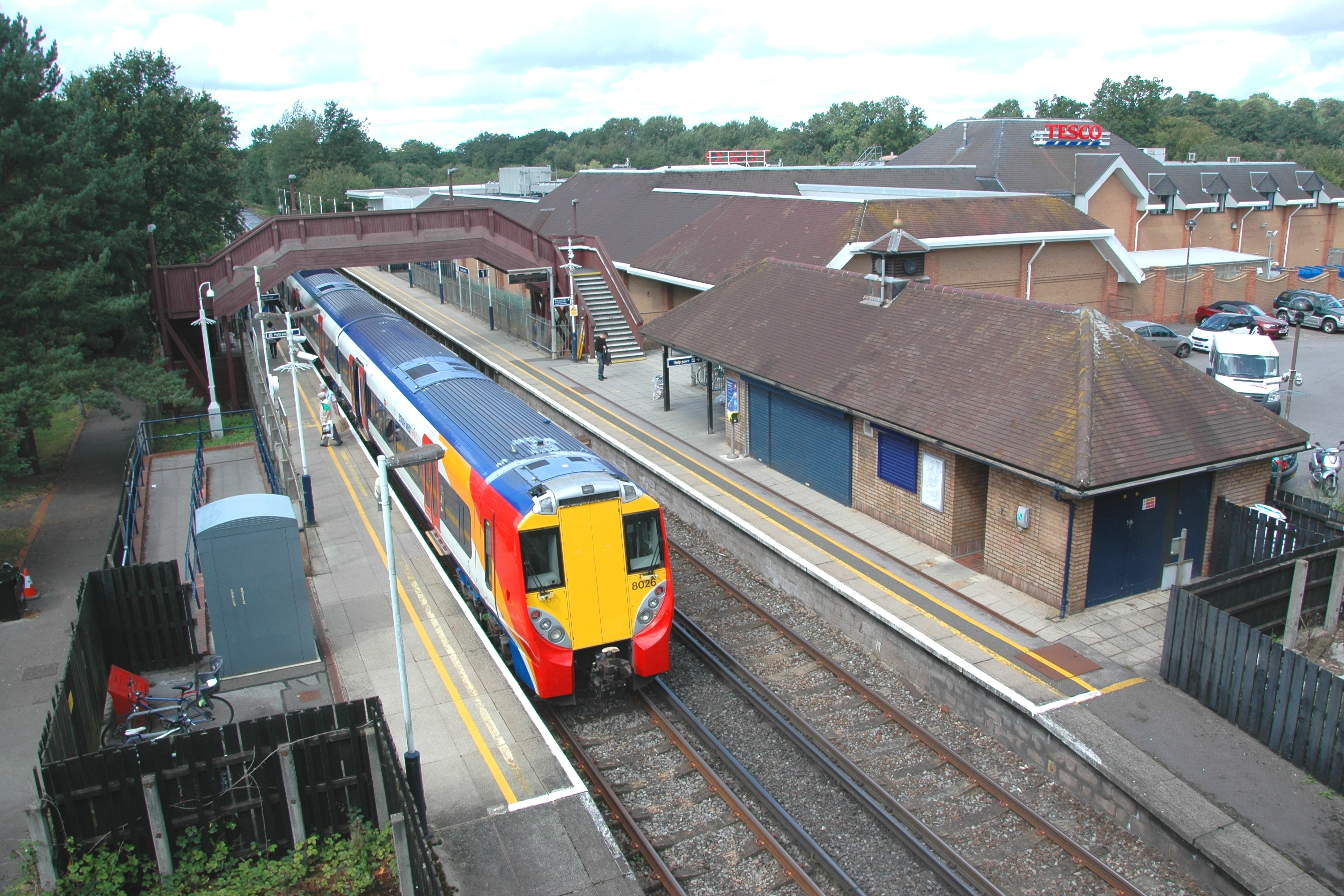 Martins Heron railway station, Bracknell, Berkshire, England: South West Trains class 458 train 458026 on a down train from London Waterloo to Reading